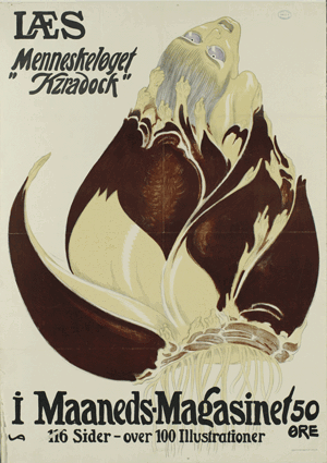 Book cover for the book "Menneskeløget Kzradock", by Danish author Louis Levy